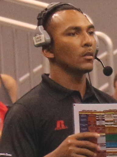 ORLANDO, Fla. – The Headquarters and Headquarters Company, 143d Sustainment Command (Expeditionary) Color Guard presented our nation’s colors to more than 11,000 screaming fans who waited to see the Orlando Predator take on the Los Angeles Kiss at the Amway Center here, Saturday, April 18, 2015. The Orlando Predators are a professional arena football team based in Orlando, Florida. The team is part of the South Division of the American Conference of the Arena Football League. “The 143d color guard did an outstanding job as usual,” said Mr. Adrian Robles, the community relations director for the Predators. "We always look forward to seeing them perform", he further added. Photos by Chief Warrant Officer 3 Desiree Felton